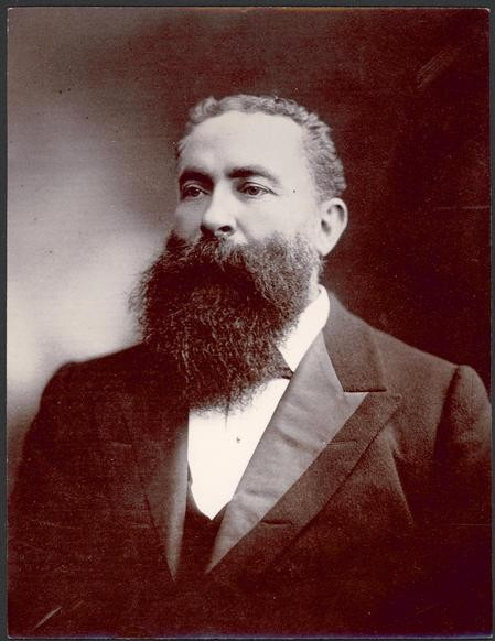 Photograph of Vaiben Solomon, Premier of South Australia and a member of the first Australian Parliament. Originally uploaded to EN Wikipedia as File:Vaiben Solomon1.jpg by User:Roisterer 29 October 2005.